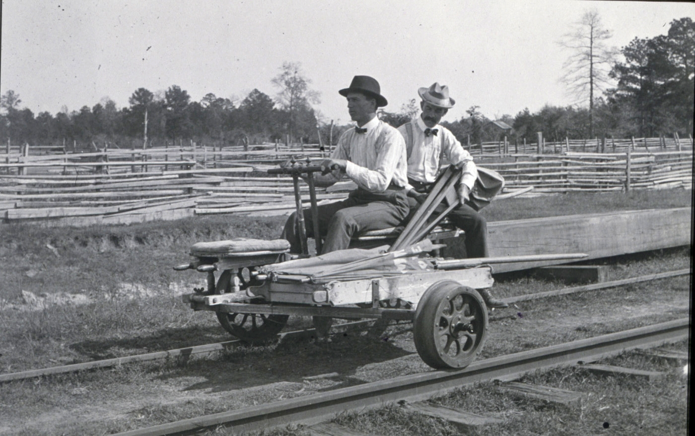 Early mechanized level party with hand-velocipede. Observer riding ahead. Level party of W.H. Burger. Oklahoma, Indian Territory.